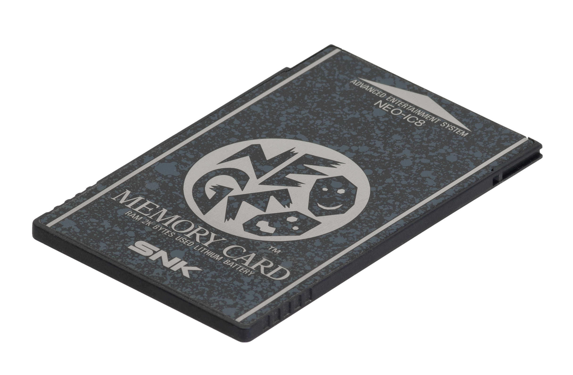 A memory card for the Neo Geo AES console, one of the first memory cards for a video game console.